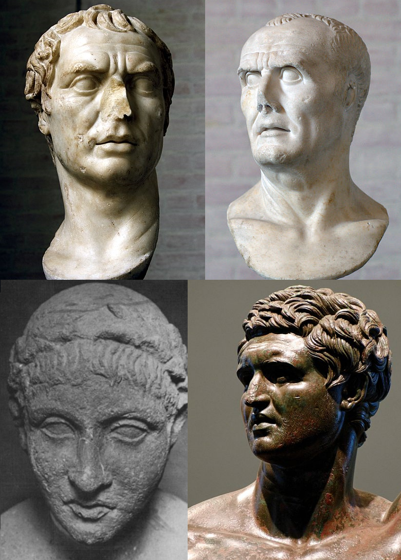 Montage of four busts of the Cornelii Scipiones. Clockwise from top left: 1. 2. 3. 4.